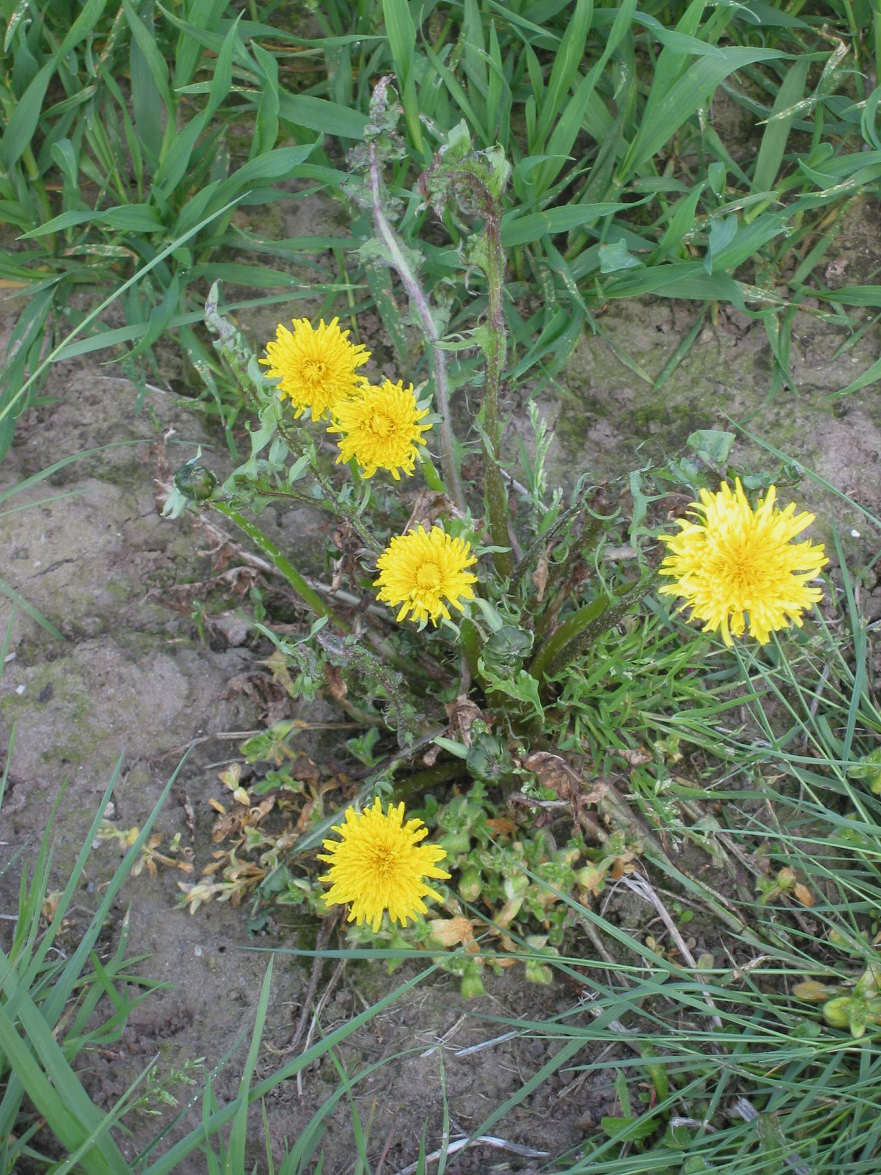 Taraxacum officinale herbicide damage